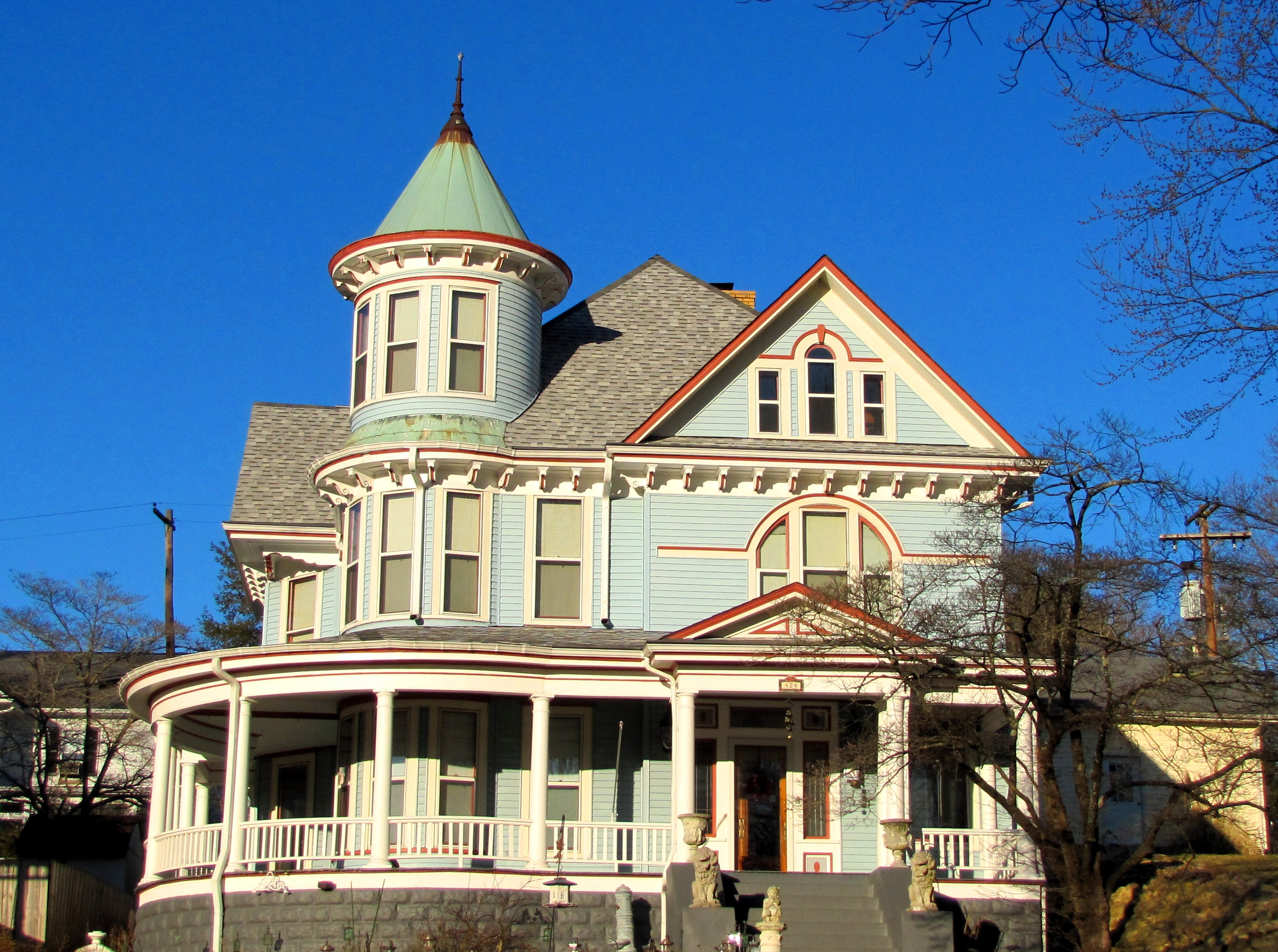 House at 424 Walden Avenue, part of the NRHP-listed Cornstalk Heights Historic District of Harriman, Tennessee, USA. This house was built around 1895.